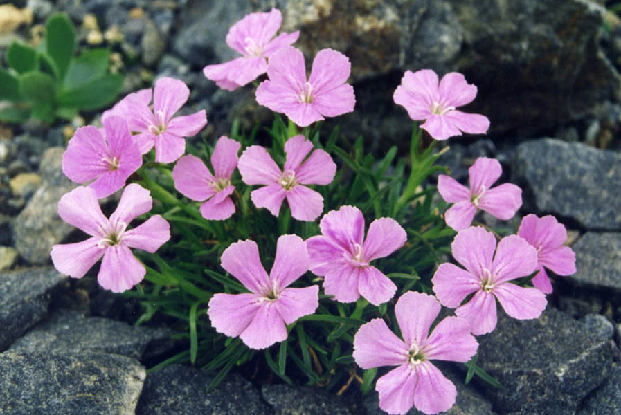 Dianthus glacialis